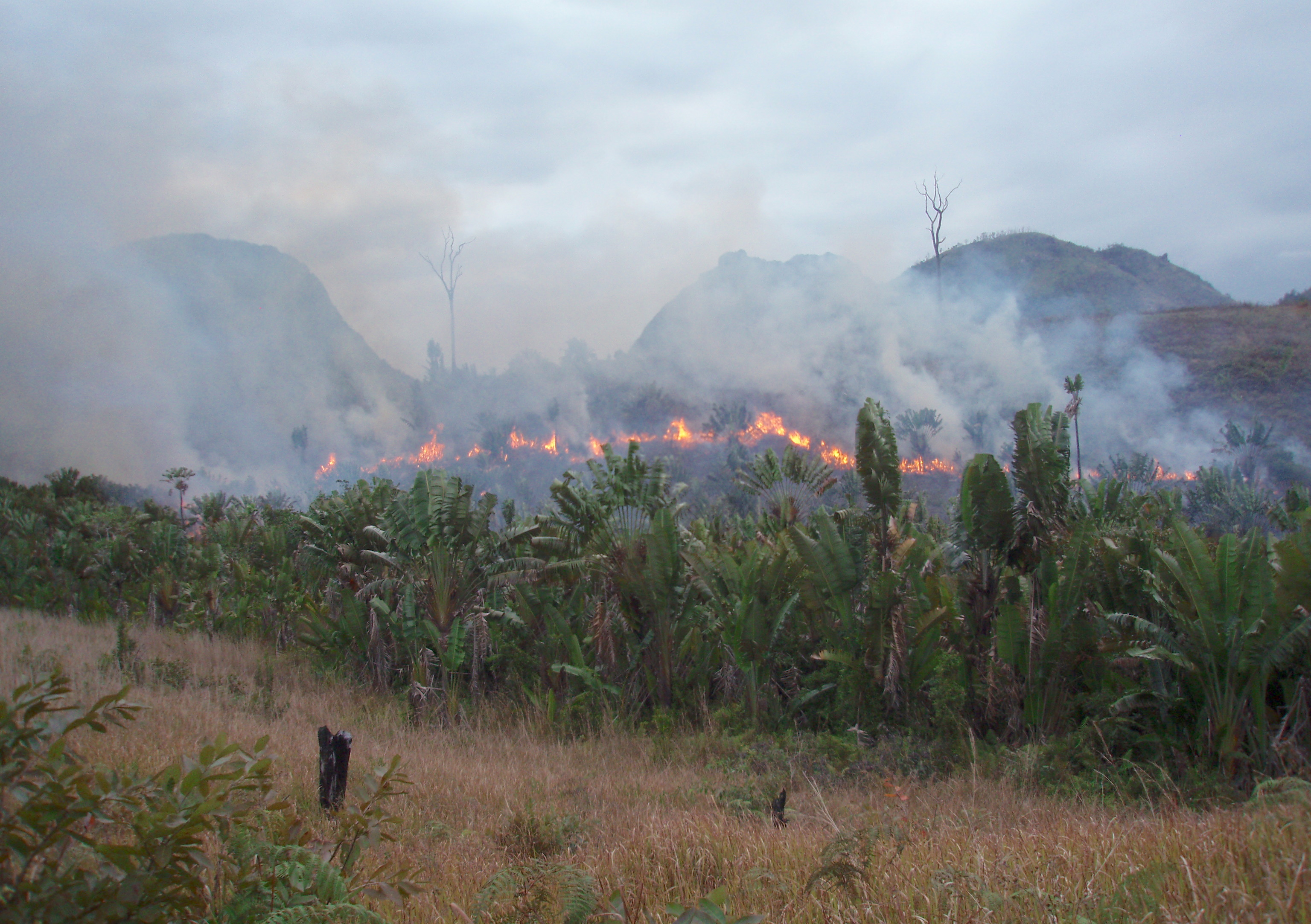 Illegal slash and burn practise in the region west of Manantenina.